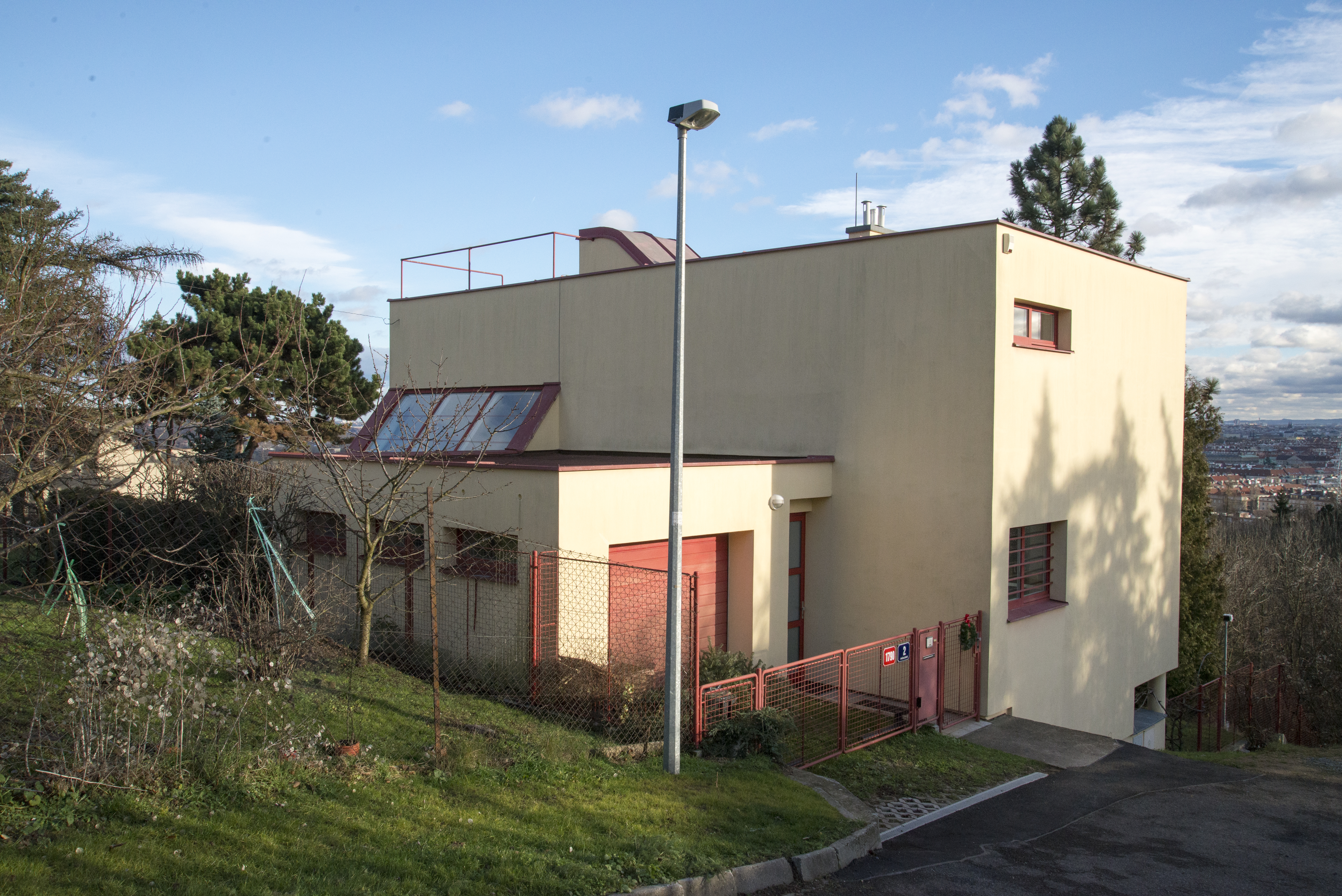 Osada Baba (Baba Functionalism colony in Prague) - House Sutnar